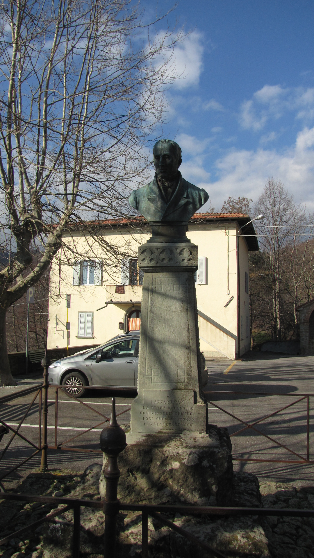 Monument to Lazzaro Papi, in Pontito, village in the municipality of Pescia, Tuscany.